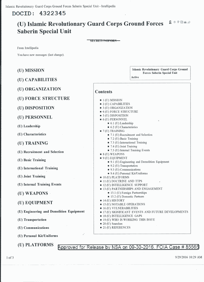 Table of contents for the Intellipedia page on Iran’s Islamic Revolutionary Guard Corps Saberin Special Forces unit, obtained via FOIA